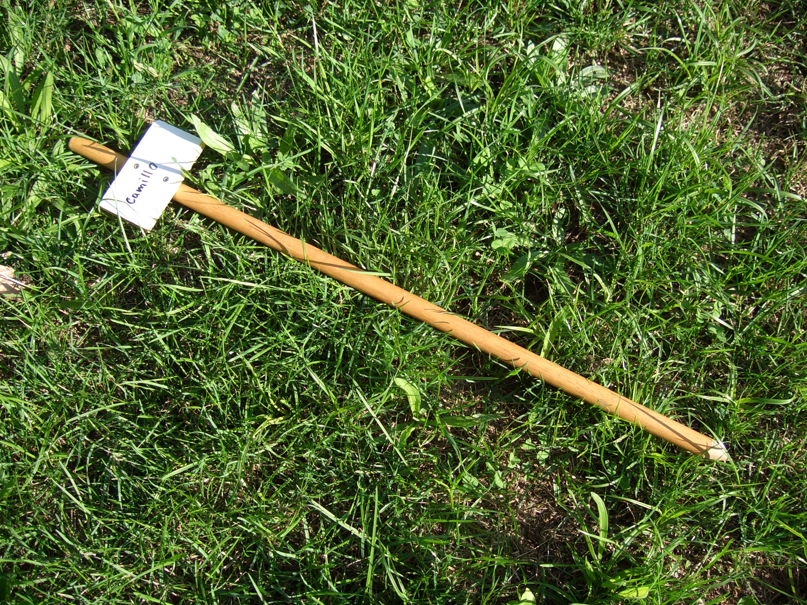 signpost for marking the start of the track at the scent pad